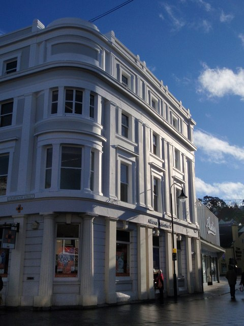 Neo-classical building, Newton Abbot At the corner of Courtenay Street, with a pleasant rounded corner and some fluted columns at ground level. Very much more modest is the southern part of Austin's to its right.